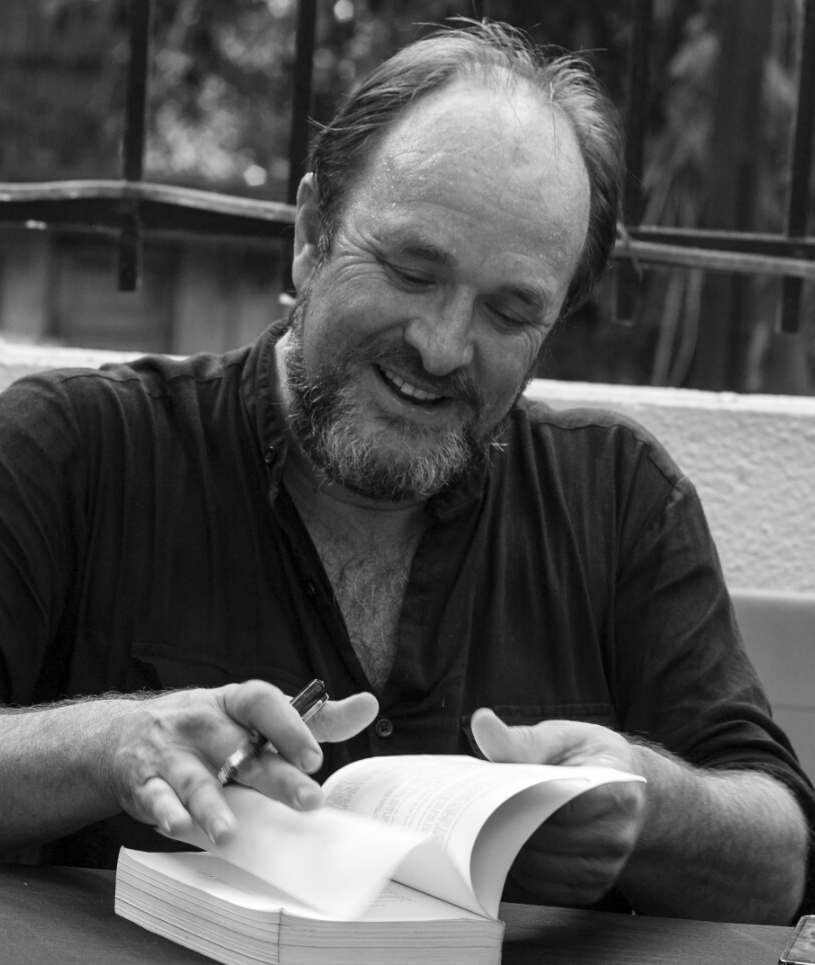 Photo of British author William Dalrymple during a book signing.